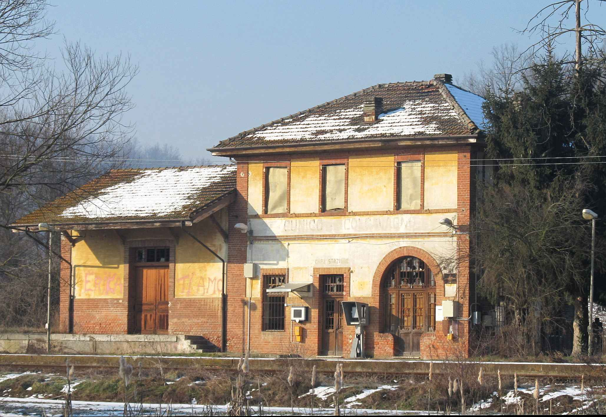 Cunico-Colcavagno train station (winter 2013)